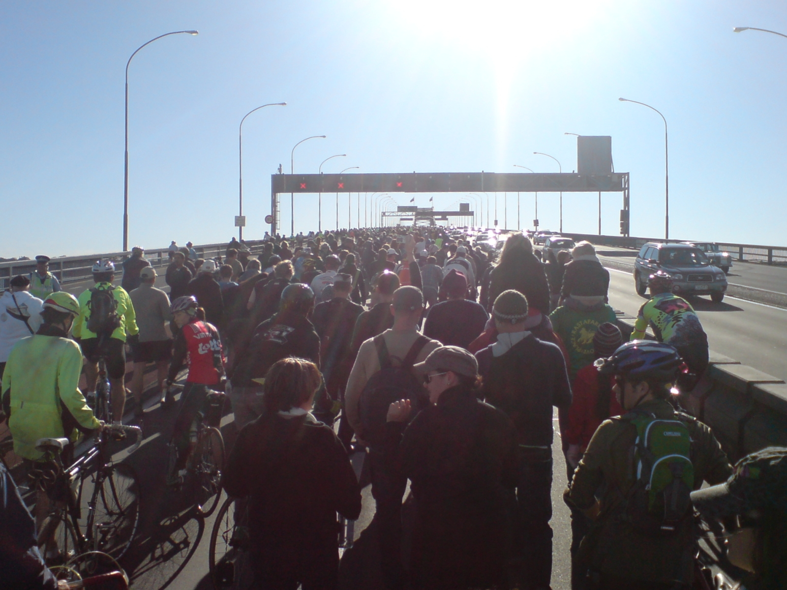 Protesters for a walk- and cycleway across the Auckland Harbour Bridge, between Auckland City, and North Shore City in New Zealand, shown crossing the bridge, near one of the variable message signs on the northbound approach viaduct. The protesters swarmed onto the bridge after several individuals made their way around police barriers and walked / cycled onto the motorway, upon which the whole northbound traffic was stopped by police and highway workers, in turn animating the rest of the crowd to join them on the now-closed lanes (with police deciding to abandon the attempt to turn them back).